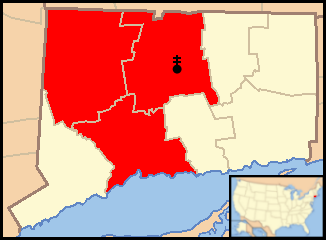 Map of the Catholic Archdiocese of Hartford in the USA.